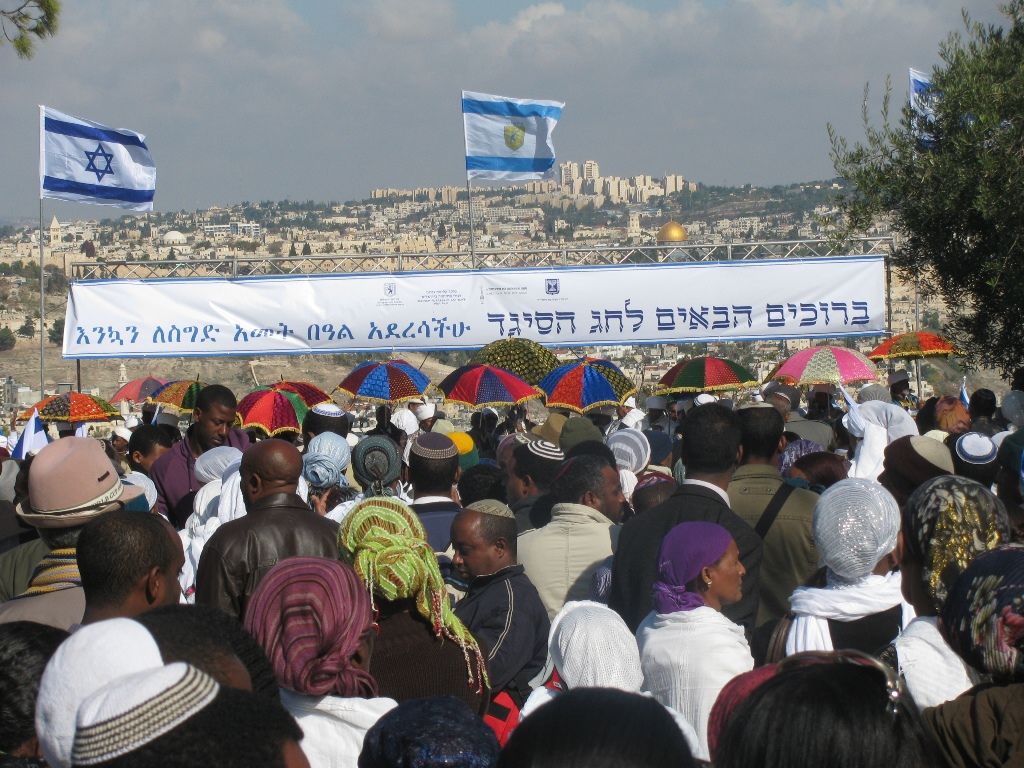 Ethiopian community celebrating Sigd at the Tayelet in Jerusalem.